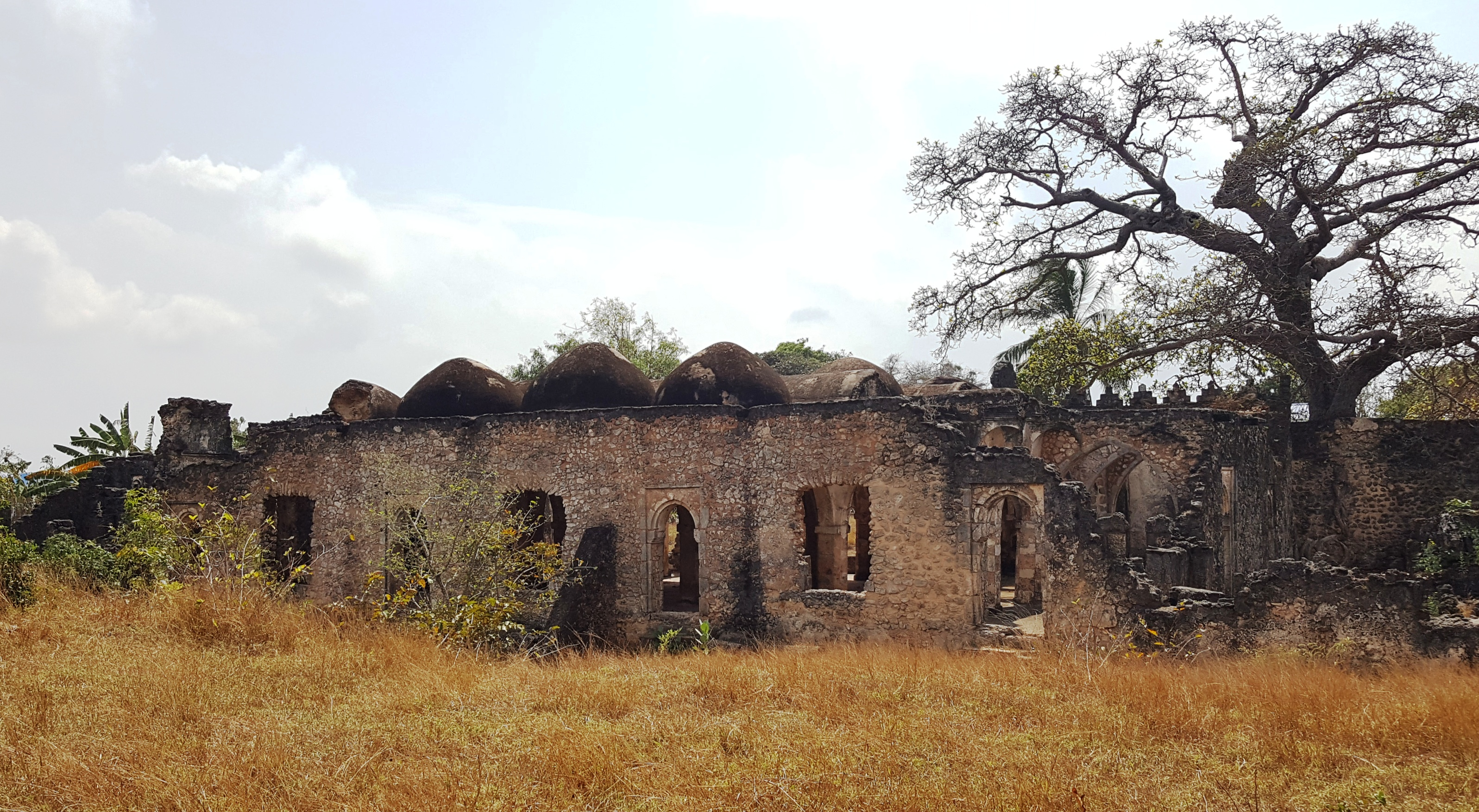 Songo_Mnara_Ruins